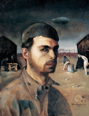 Self-portrait